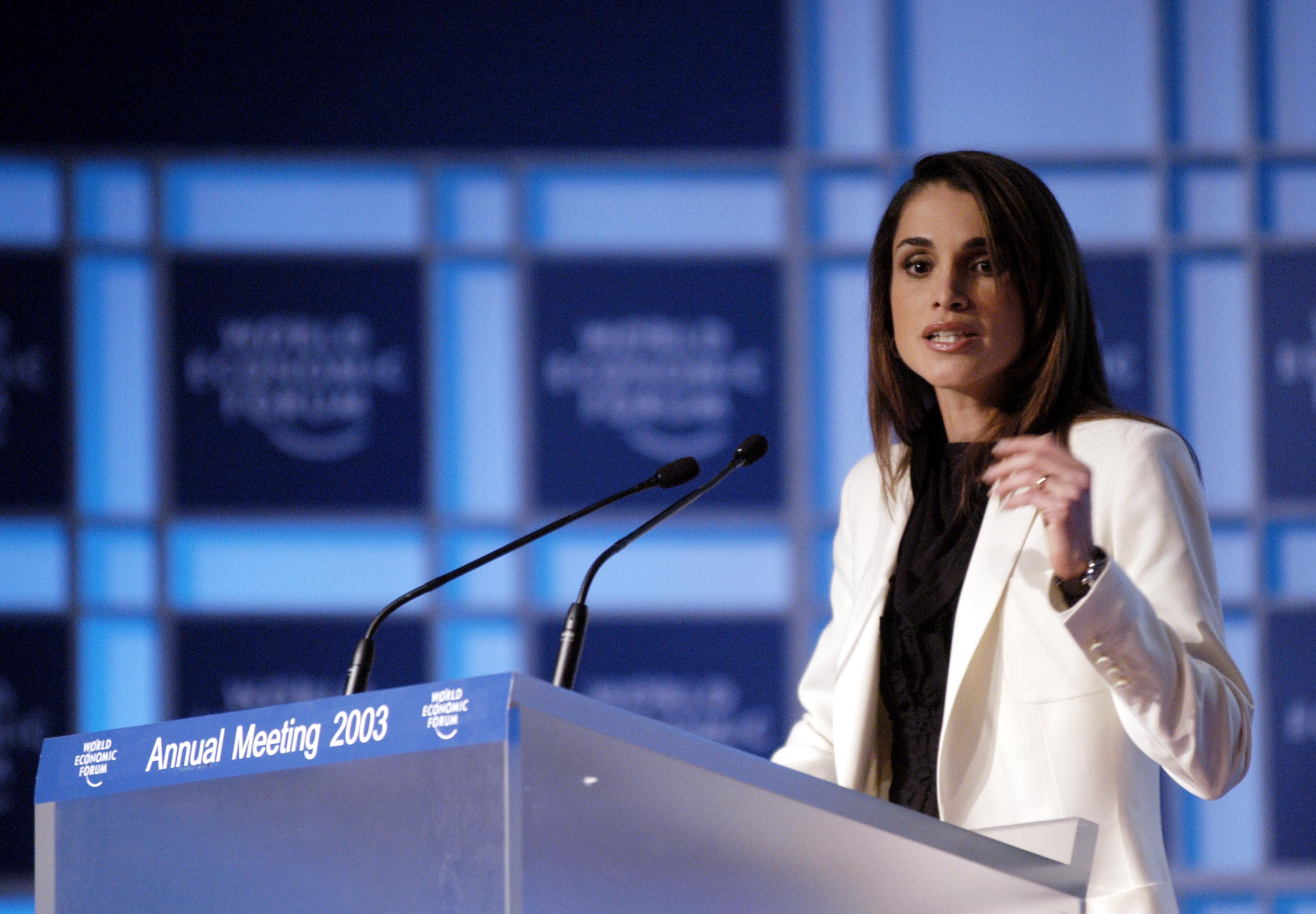 DAVOS,27JAN03 - Her Majesty Queen Rania of the Hashemite Kingdom of Jordan captured during the session 'Dialogue with the Queen of Jordan' at the 'Annual Meeting 2003' of the World Economic Forum in the Congress Center in Davos/Switzerland. January 27, 2003.